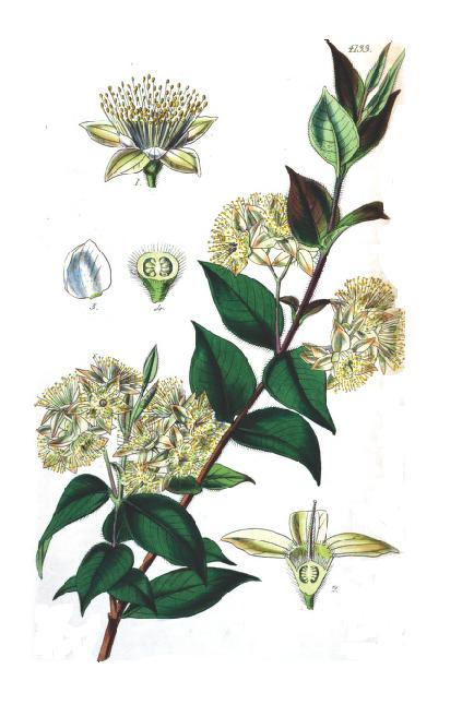 Cinnamon myrtle